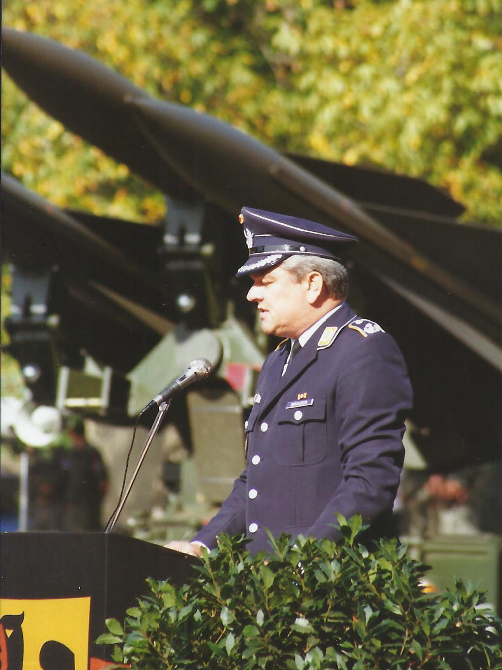 Oberstleutnant Peter Bräger speaking at the Caspari Kaserne in Delmenhorst (Germany) at the official dismission of Flugabwehrraktengeschwader 35 (FlaRakG 35)